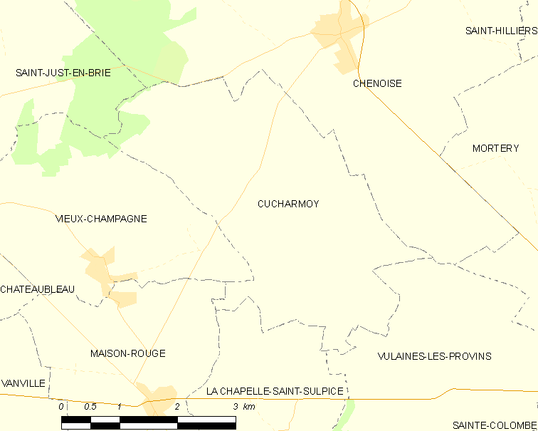 Map of French municipality Cucharmoy